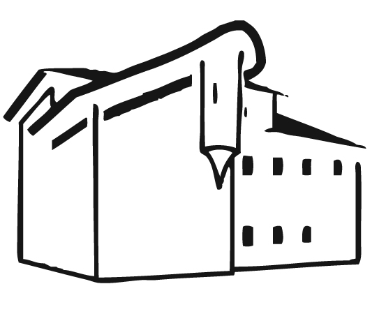 The sign of the Museum in Smederevo